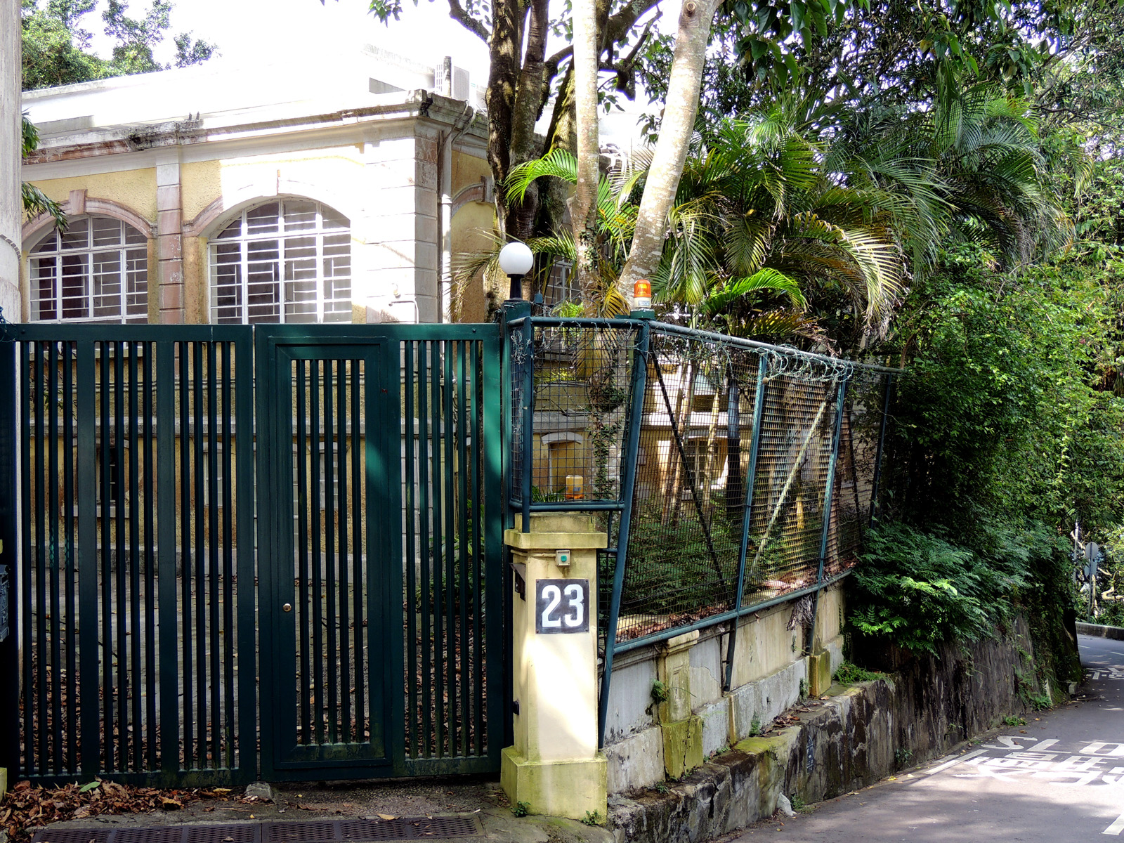 23 Coombe Road, Hong Kong is also called CARRICK